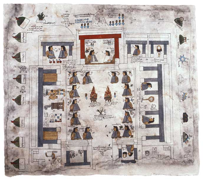 Description of Nezahualcoyotl Palace in Codex Quinatzin